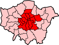 Inner London (Census).